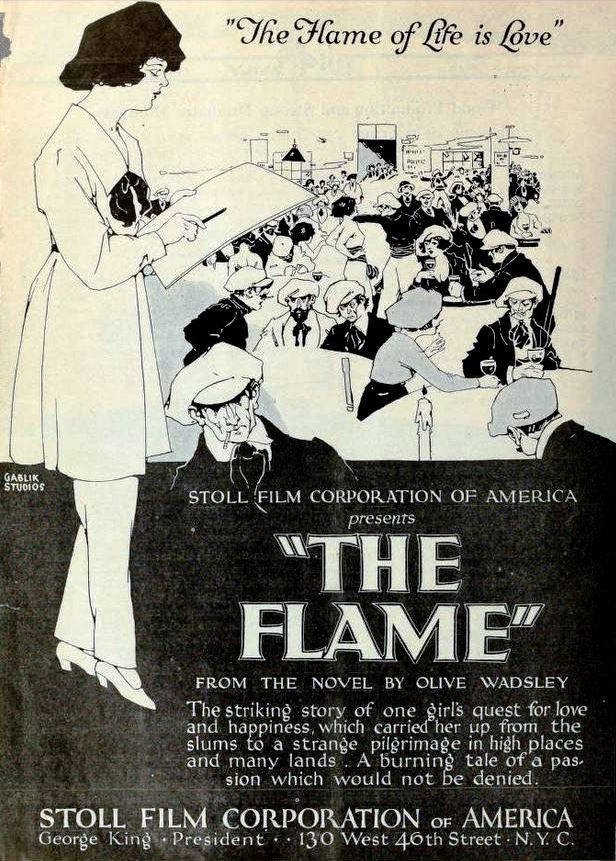 American ad for the British film The Flame (1920), on page 12 of the January 16, 1921 Film Daily.